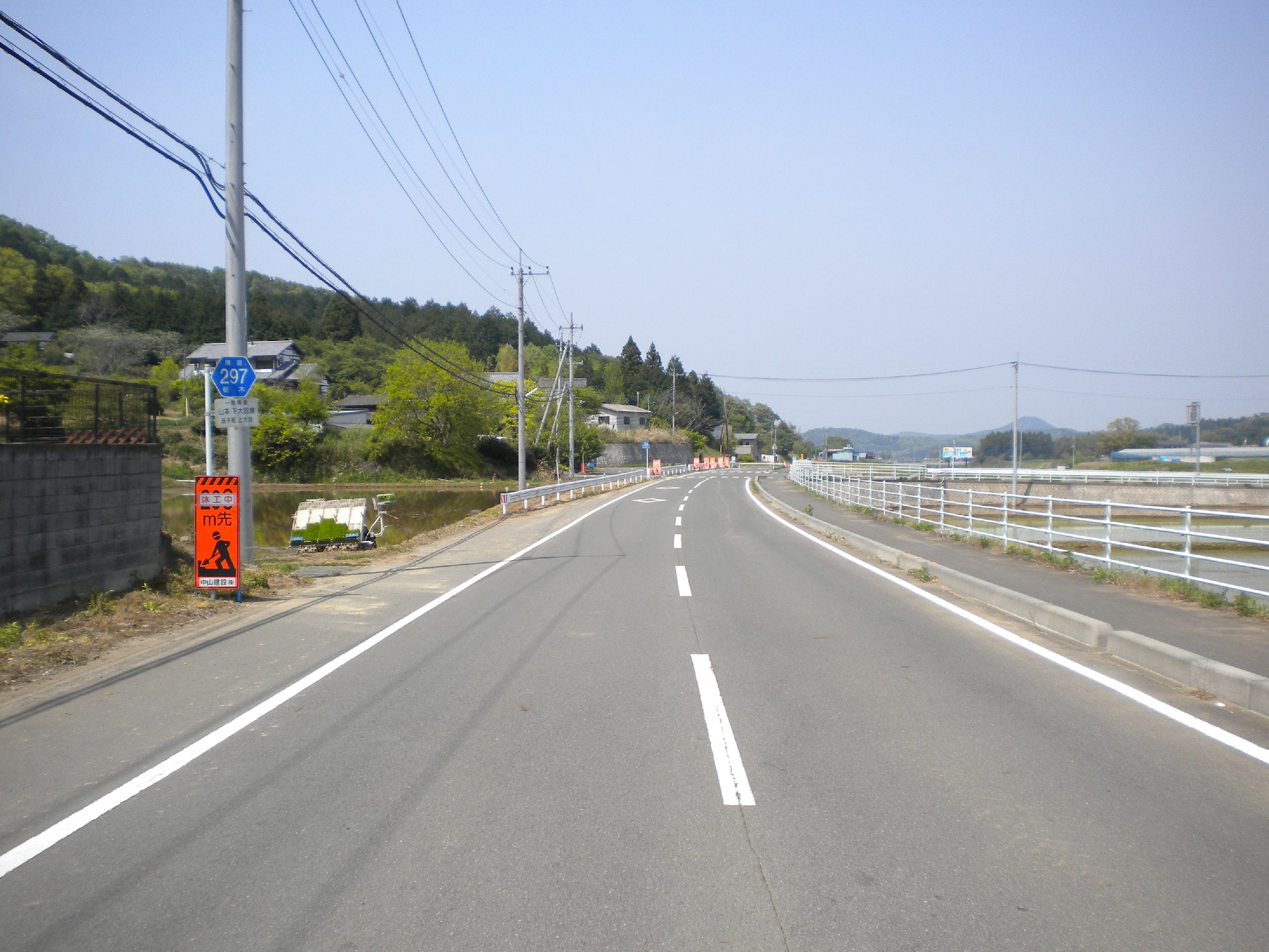 Tochigi prefectural road No.297 on Mashiko town